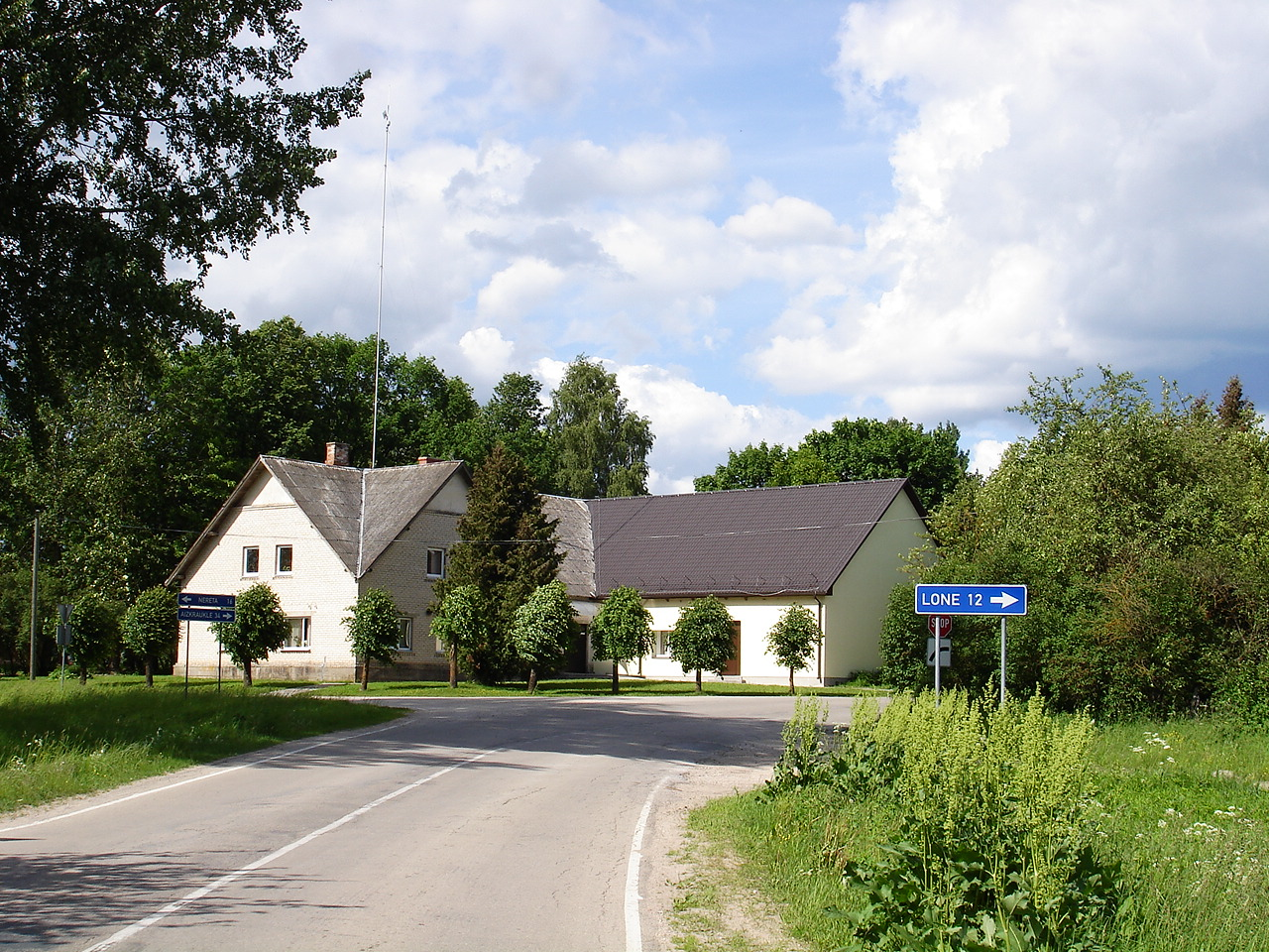 Road an house in Zalve parish, Latvia